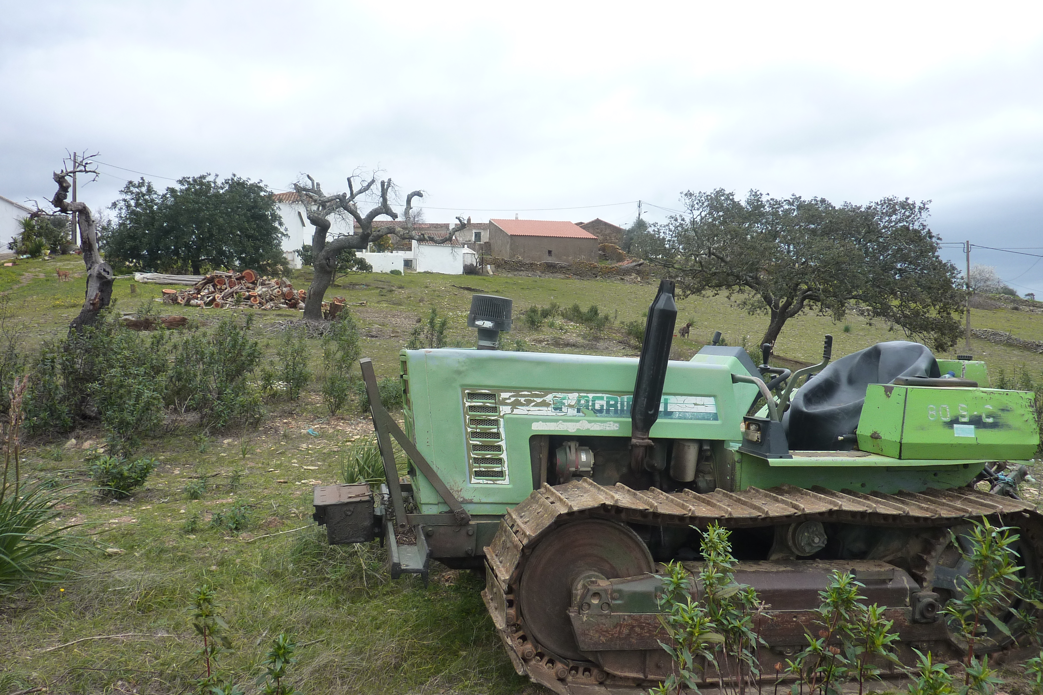 Algarve - farmstead with tractor